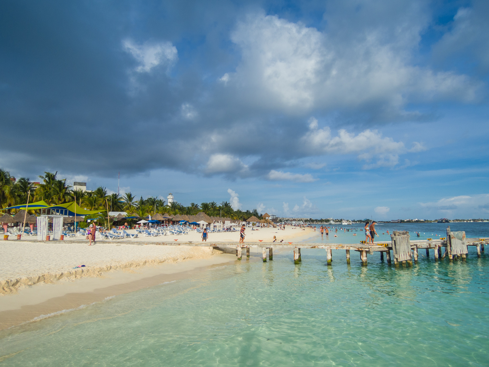 500px provided description: Beautiful Mexico [#landscape ,#sea ,#water ,#nature ,#beach ,#travel ,#blue ,#freedom ,#vacation ,#outdoor ,#nikon ,#sand ,#live ,#relax ,#trip ,#holiday ,#blau ,#natur ,#wasser ,#meer ,#strand ,#urlaub ,#landschaft ,#reisen ,#freiheit ,#kamera ,#geotagged ,#dji ,#allgemein]